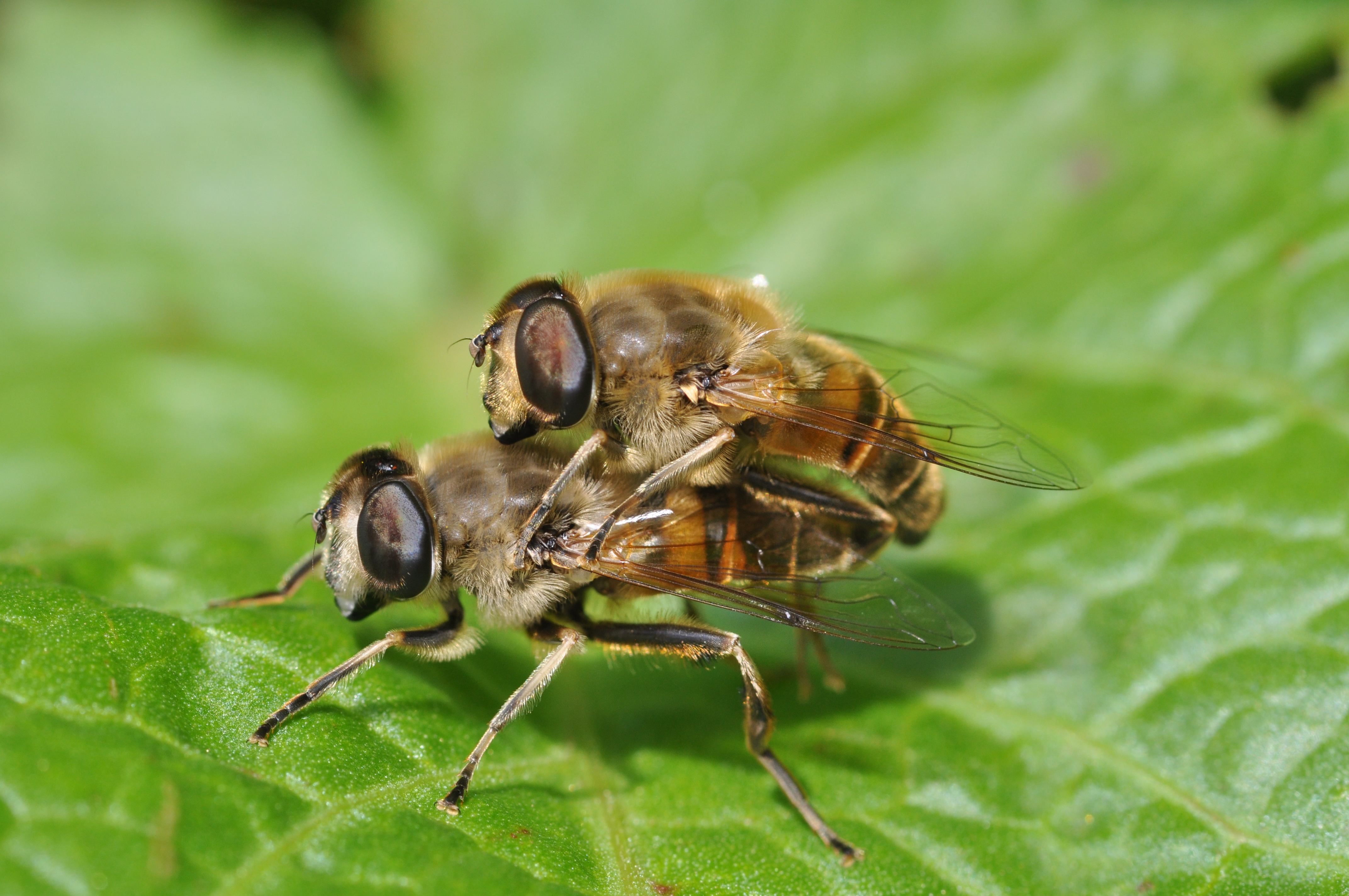 Droneflys mating in Bahrenfeld, Hamburg.